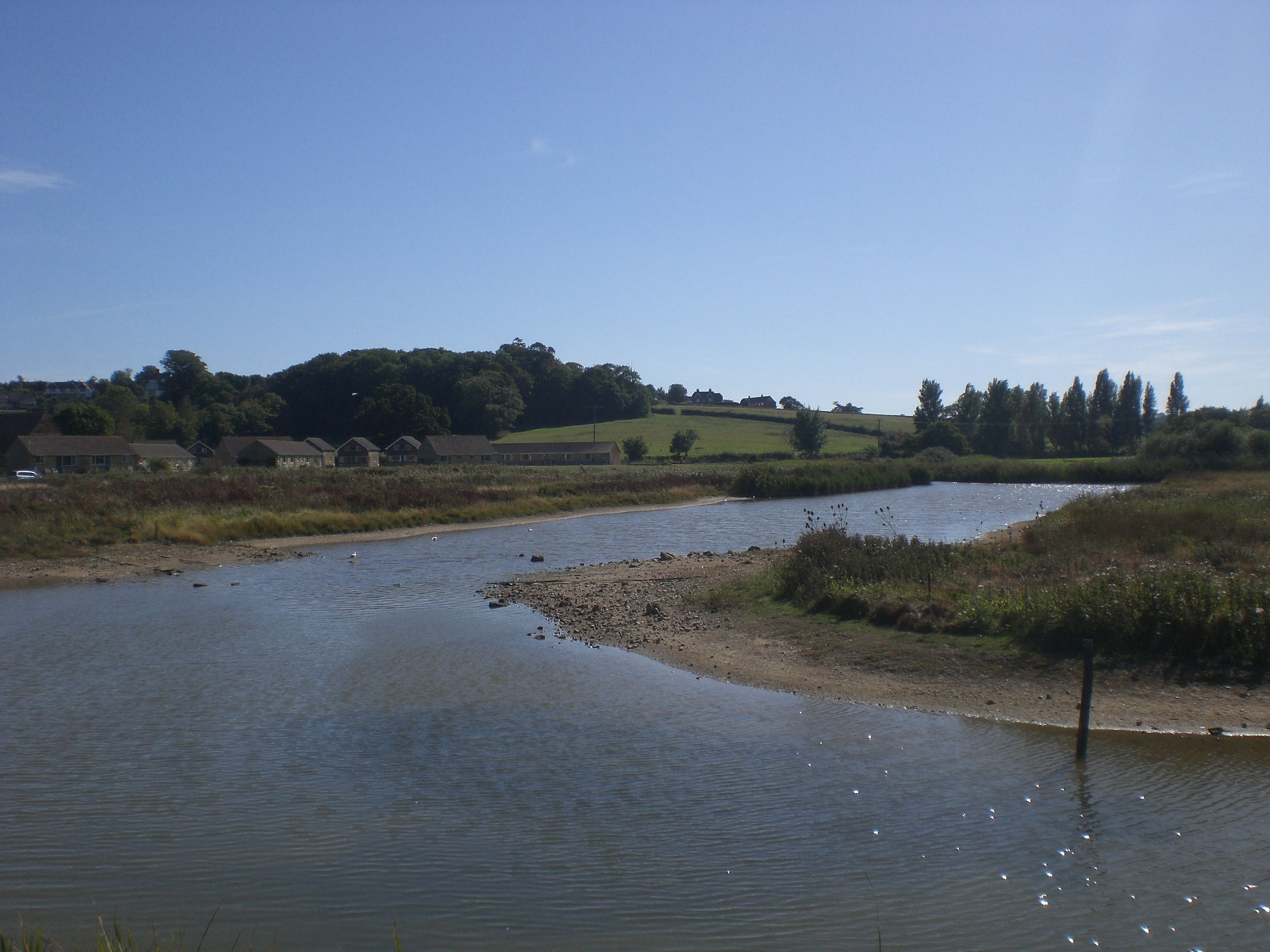 The centre of the Alan Hersey Nature Reserve which the two viewing areas look out onto.